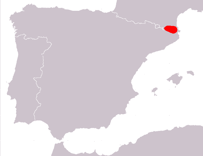 Distribution map of Belisarius xambeui.